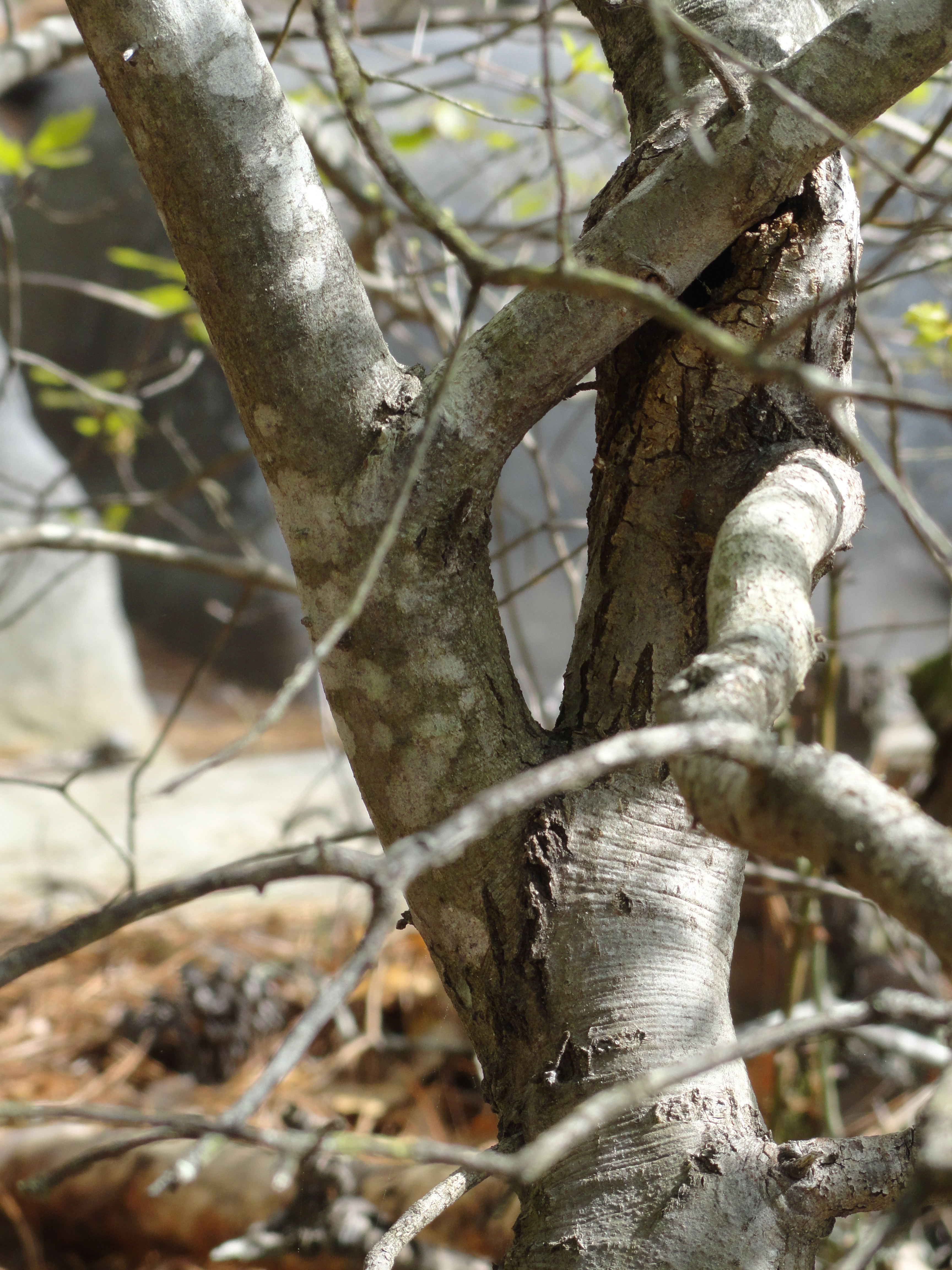 Quercus georgiana bark, taken on the Walk Up Trail at Stone Mountain Park in Georgia, US